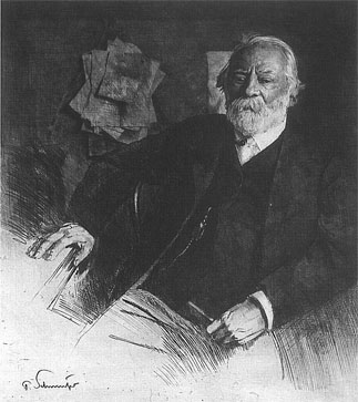 Engraved portrait of pianist Theodor Leschetizky (1830—1915)